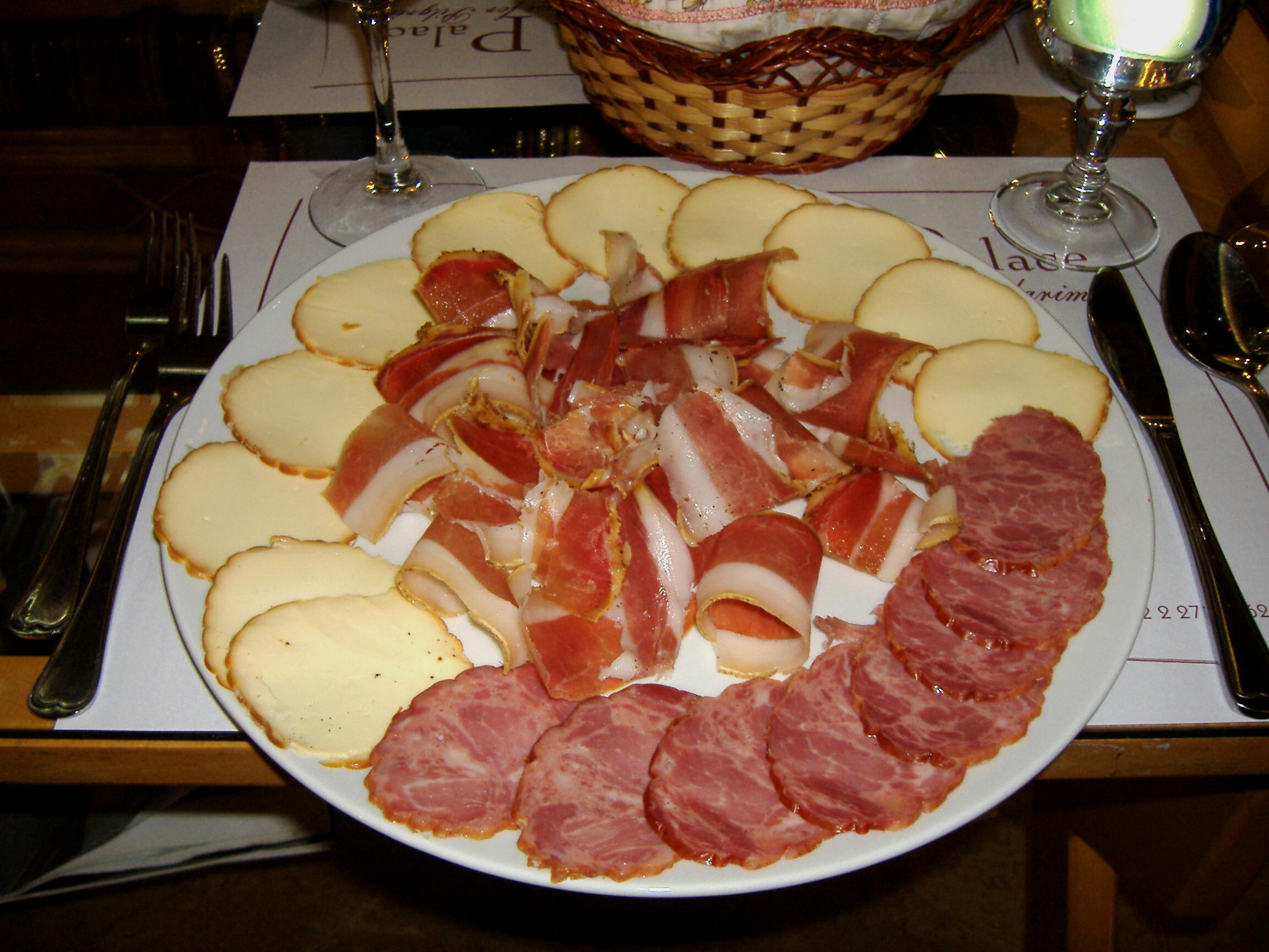 Antipasti: salami, prosciutto and cheese. From restaurant Casa Nova, Bethlehem, Palestine.